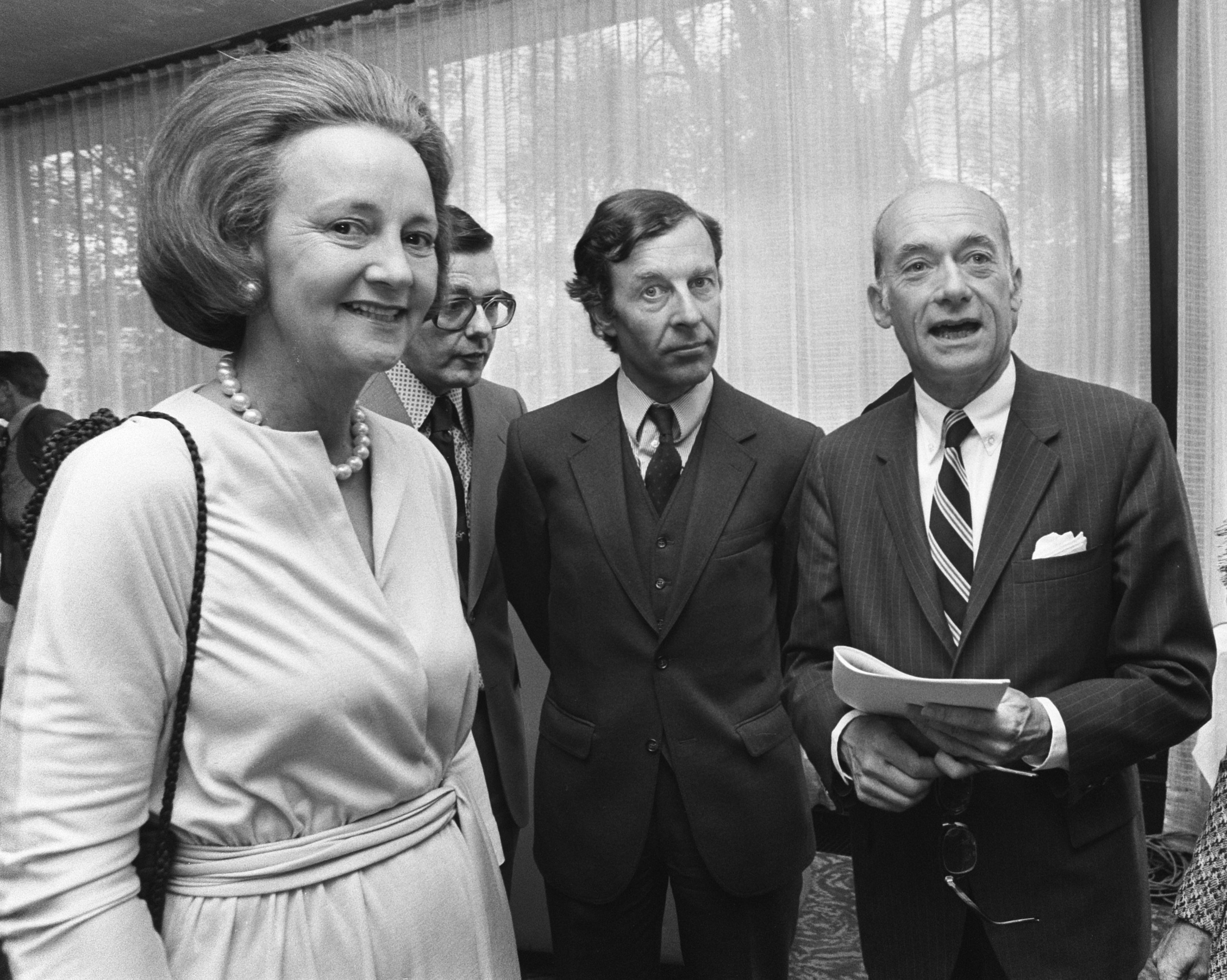 Collection / Archive: Photo collection Anefo Report / Series: Katharine Graham [1917-2001], publisher of The Washington Post, guest at a meeting of the Dutch Newspaper Press (NDP) Description: From left to right Graham, Mr. Nouwen (board member NDP), the American ambassador Date: May 22, 1975 Keywords: ambassadors, publishers Personal name: Graham, Katharine, Nouwen, J.J. Photographer: Unknown / Anefo Copyright holder: National Archives Material type: Negative (black / white) Number of archive inventory: view access 2.24.01.05 File number: 927-9431